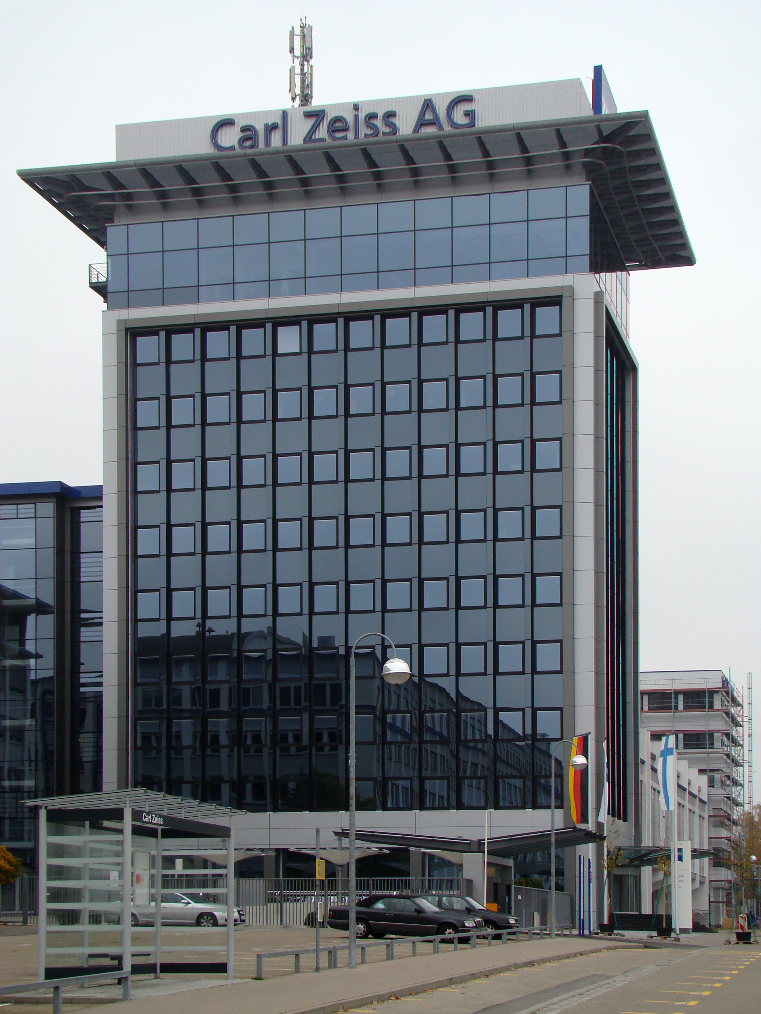 Photo of Carl Zeiss Headquarter in Oberkochen, Germany. Taken on October 11th, 2008.